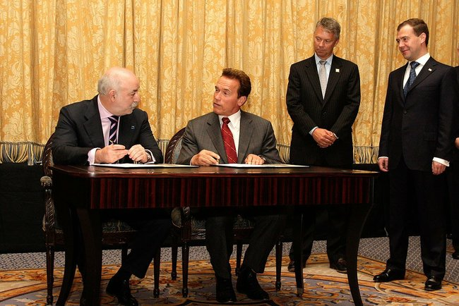 Dmitry Medvedev witnessed the signing of a memorandum on cooperation between Governor of California Arnold Schwarzenegger and Chairman of the Renova Group Board of Directors Viktor Vekselberg.